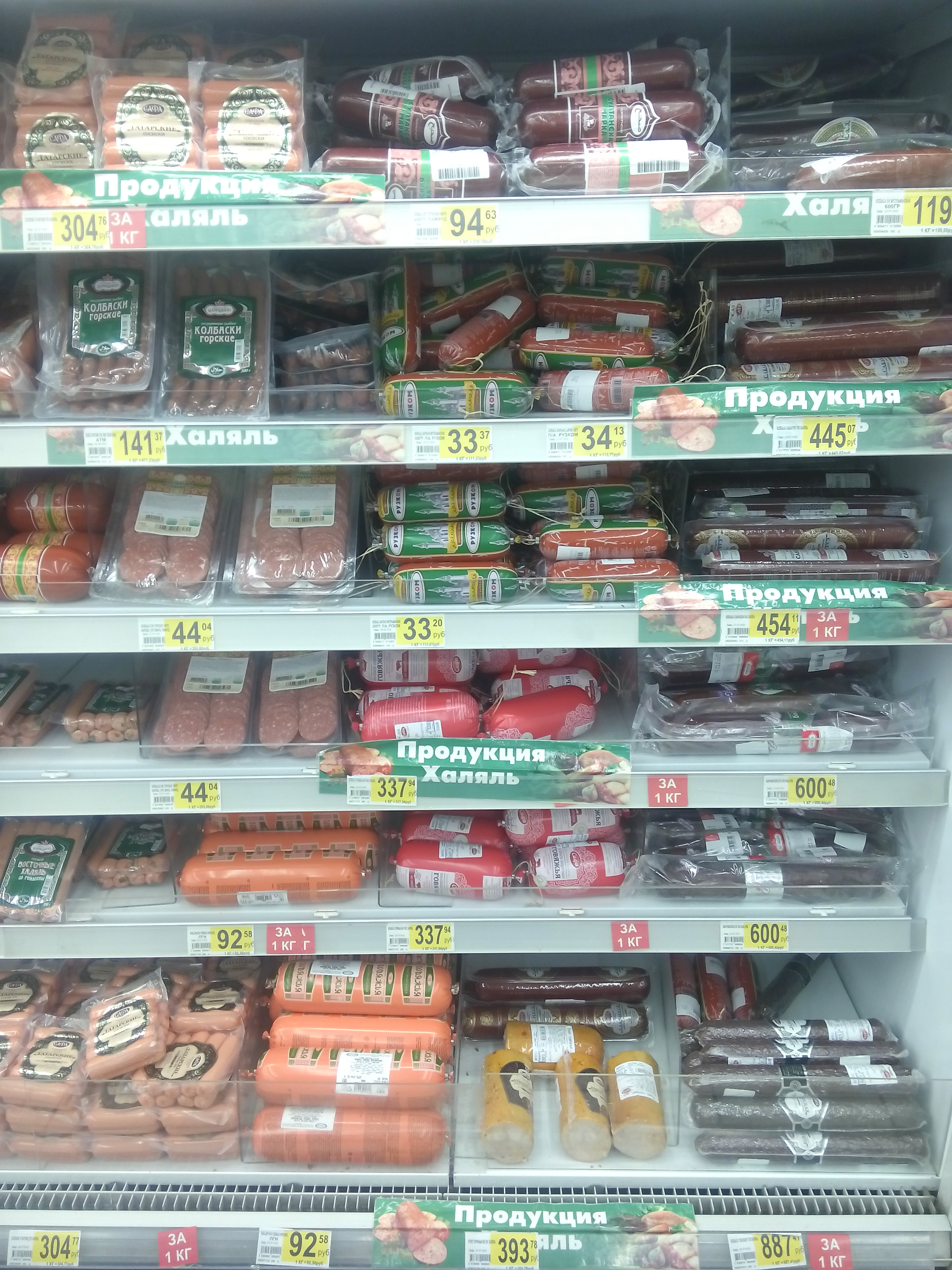 Halal sausages etc in an Auchan supermarket in Russia